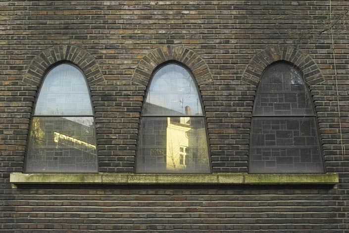 Josef Frank - Heilig Kreuz Church - Gelsenkirchen, Germany